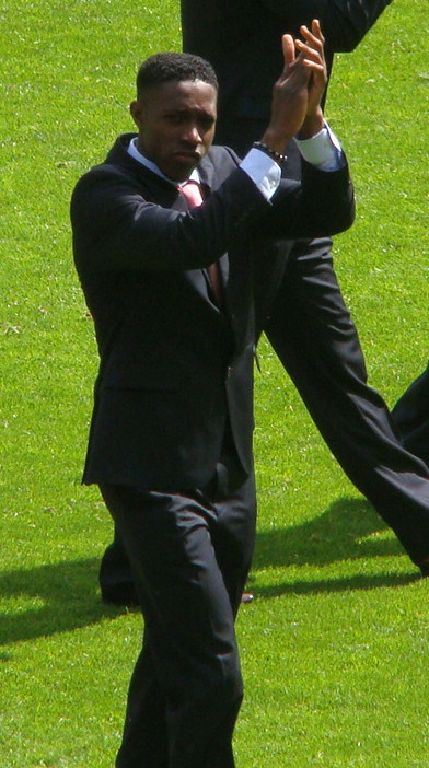 Danny Welbeck on the last day of his loan spell at Sunderland